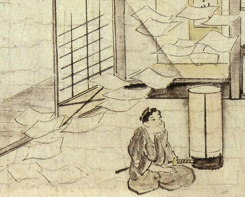 Kami-mai (紙舞, Whirling papers) from the Ehon Hyaku monogatari (絵本百物語)